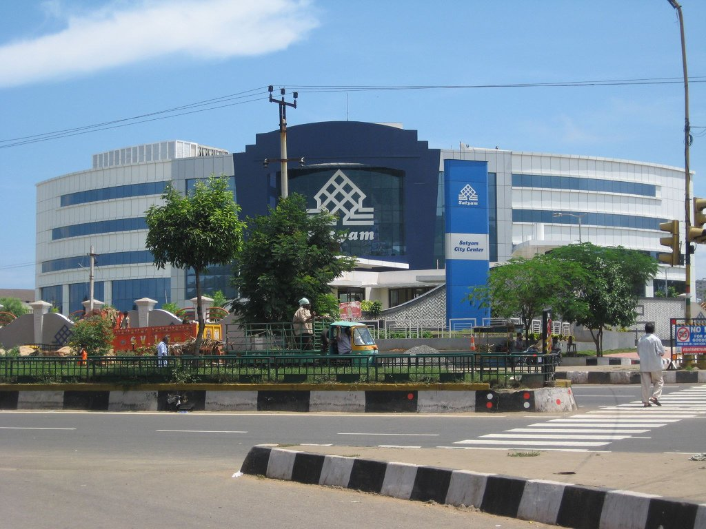 Satyam building at Vizag ( Visakhapatnam)